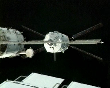 Jules Verne ATV docking to the ISS